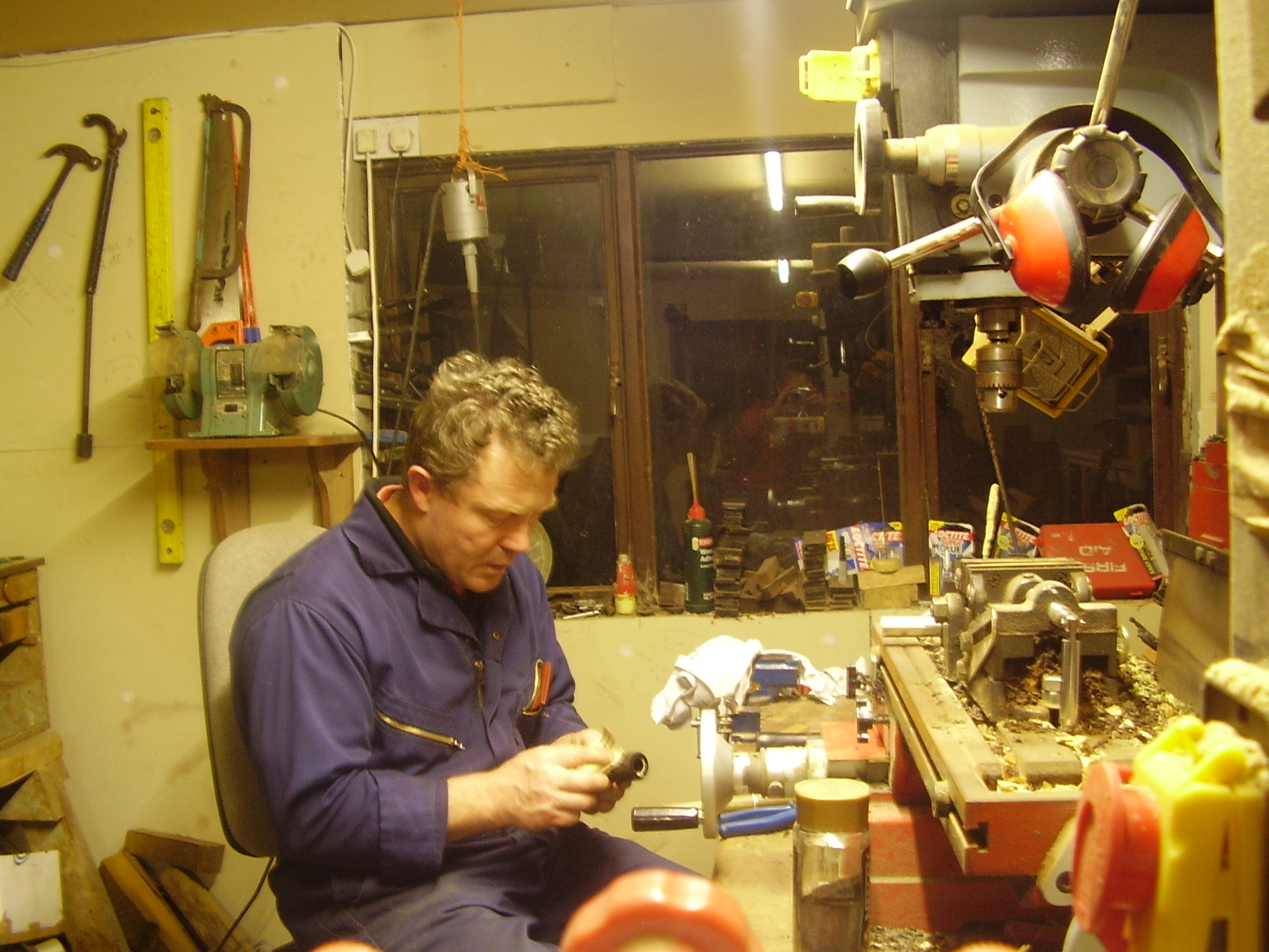 picture of marcus hernon